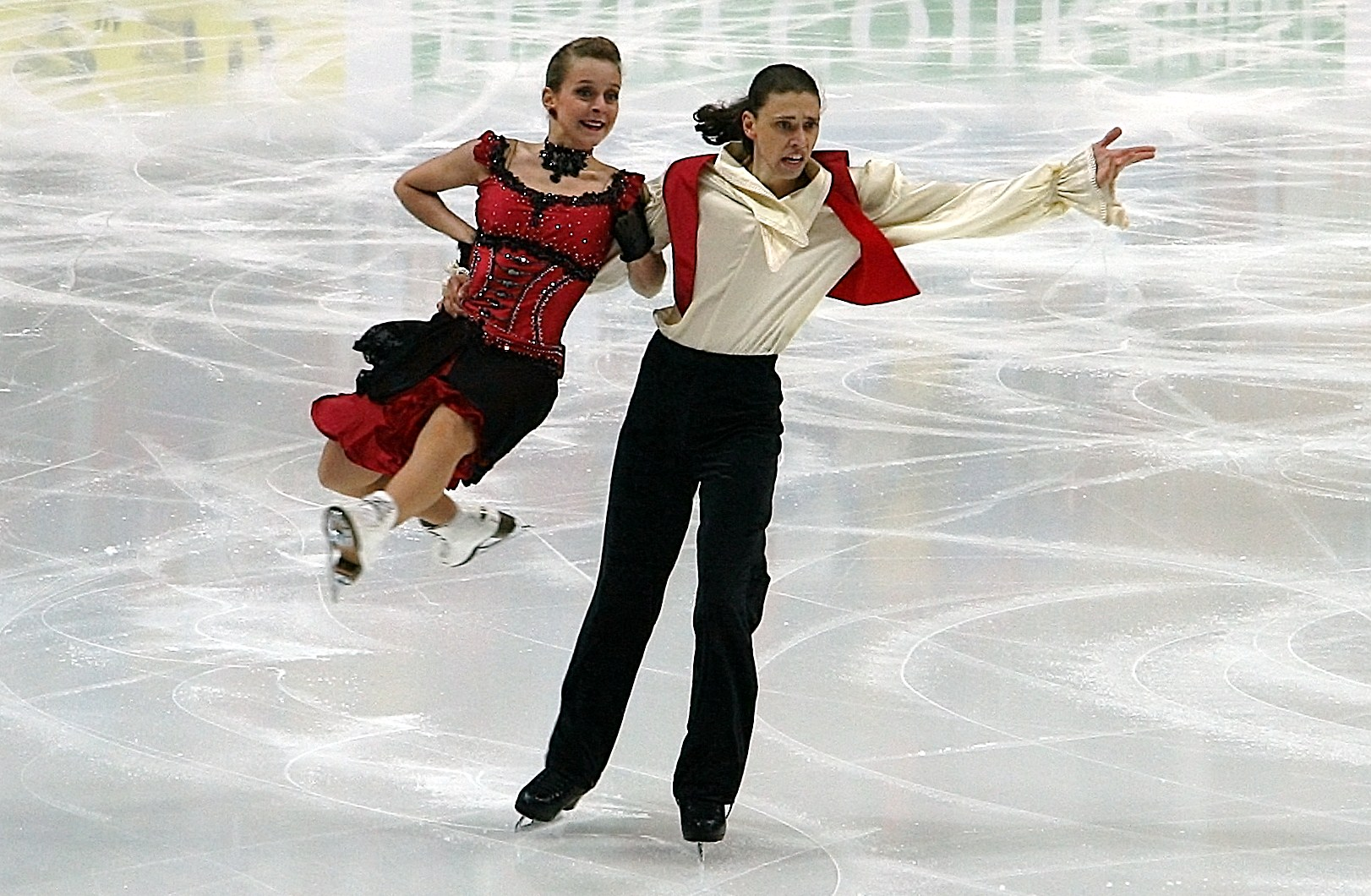 Zsuzsanna Nagy and Máté Fejes at the 2011 World Figure Skating Championships